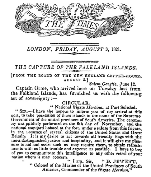 Image taken from a pamphlet issued by the Argentine Embassy in the United Kingdom, showing a composite of a Times logo, the date, and an article from The Times of 3 August 1821, republished from the Salem Gazette of June 12. Titled "The Capture of the Falkland Islands", it reports as an "act of sovereignty," a quoted "circular" as issued in Port Soledad by David Jewett, "in the name of the Supreme Government of the united provinces of South America". The page from which the image elements were taken may be seen at File:Times-3-august-1821-Falklands.jpg.